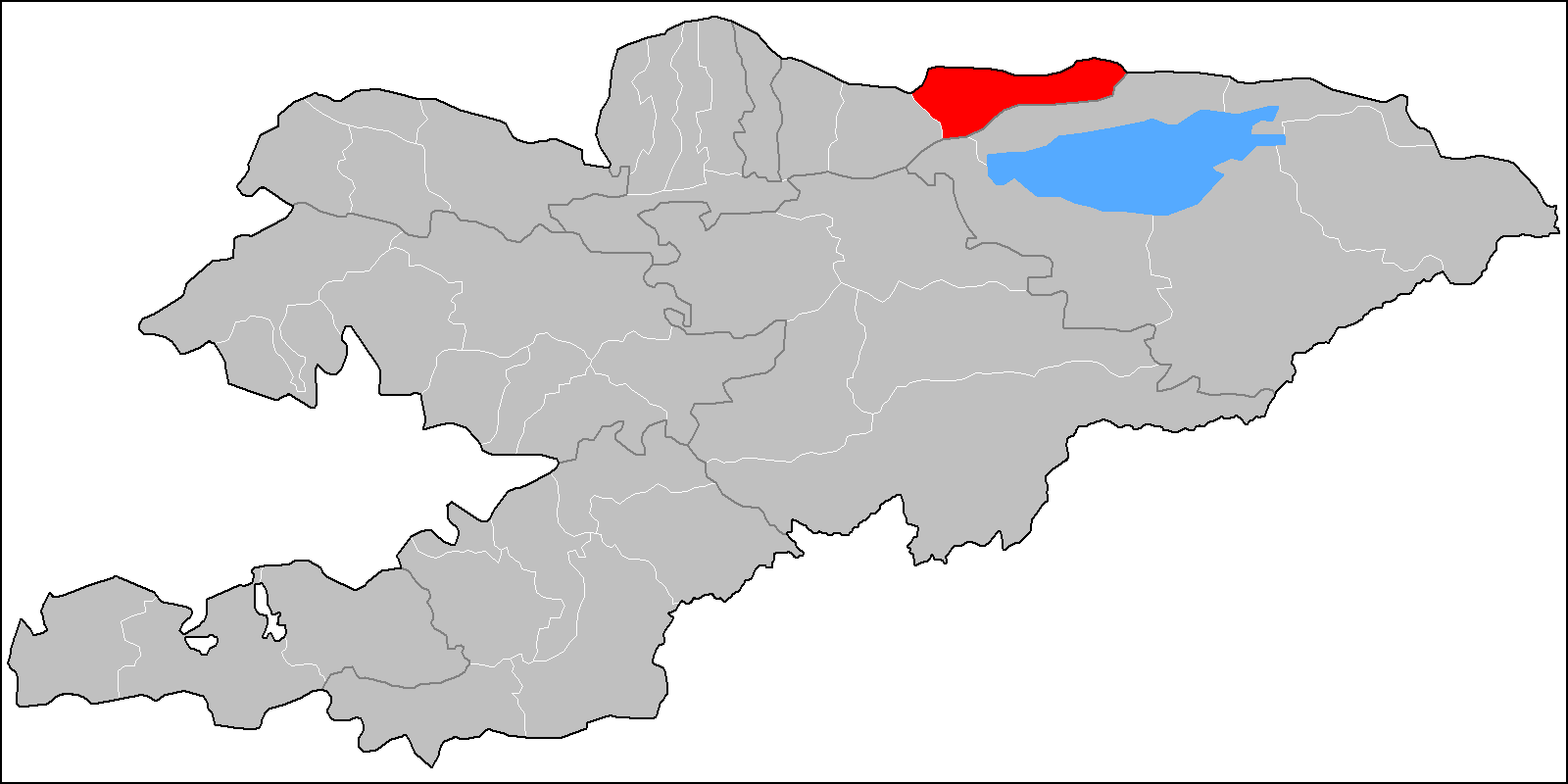 The location of the raion (district) of Kemin in Kyrgyzstan. Based on Image:Kyrgyzstan raions.png